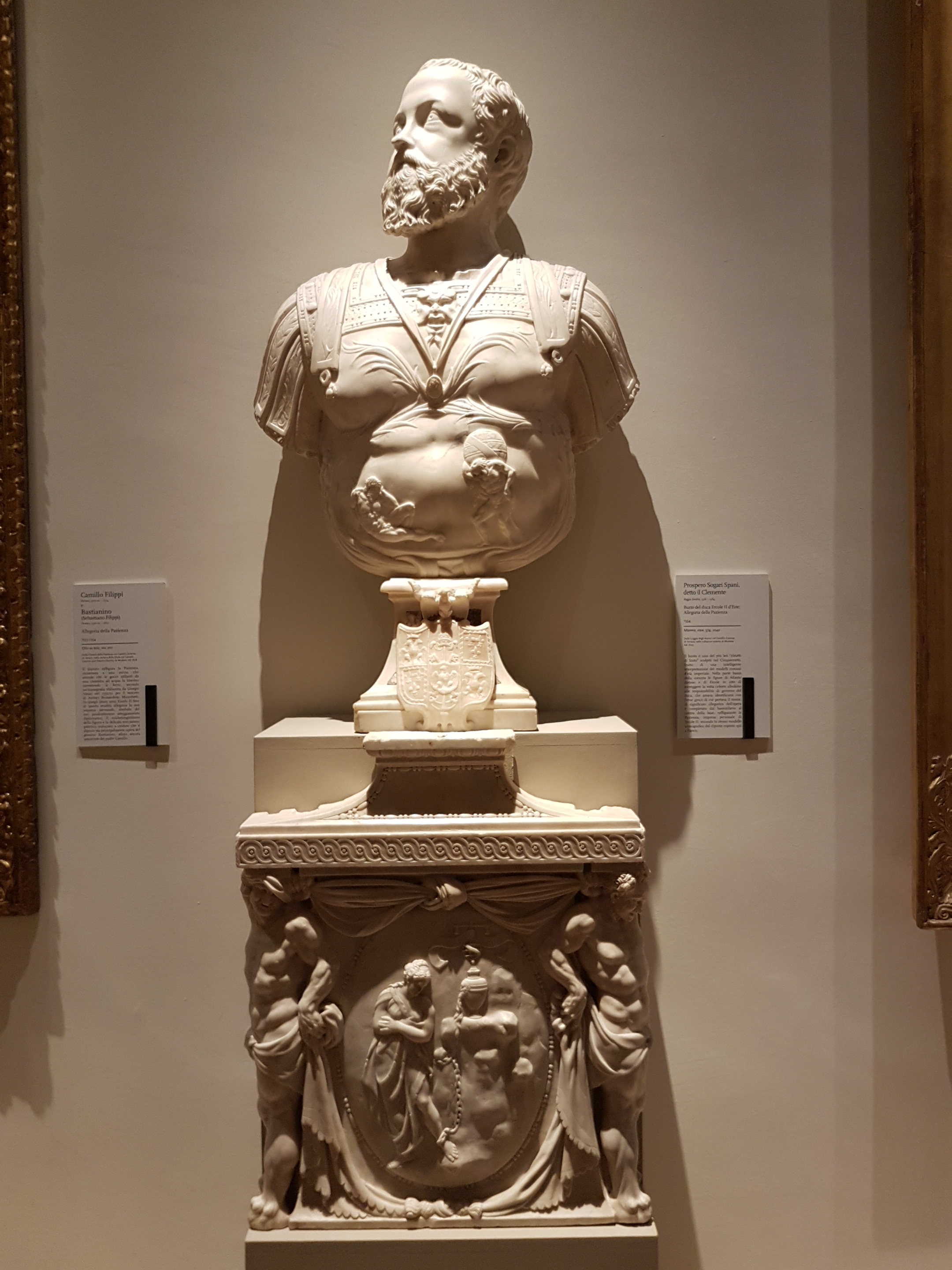 Bust of the Duke Ercole II d'Este and Allegory of Patience, by Prospero Sogari Sparni (Galleria Estense, Modene). Marble, inv. 574, 2042.